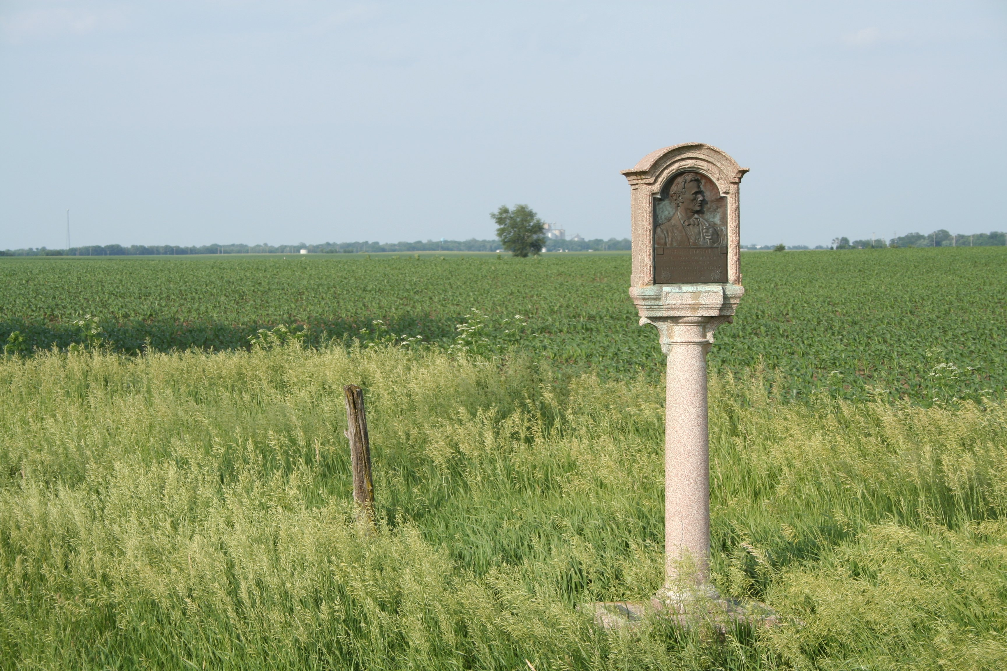 Piatt and DeWitt County Lincoln historical marker wide angle view. Looking north east at the marker. The marker reads: "Abraham Lincoln traveled this way as he rode the circuit of the Eighth Judicial District, 1847-1859. Erected 1922." At its base there is two placards one on the left reads "DEWITT COUNTY" and the one on the right reads "PIATT COUNTY". The marker is at the southeast corner of DeWitt County, intersection of roads 300 North and 2400 East, next to Piatt County intersection of roads 2100 North and 300 East, 1 mile south of the DeLand-Weldon school campus.